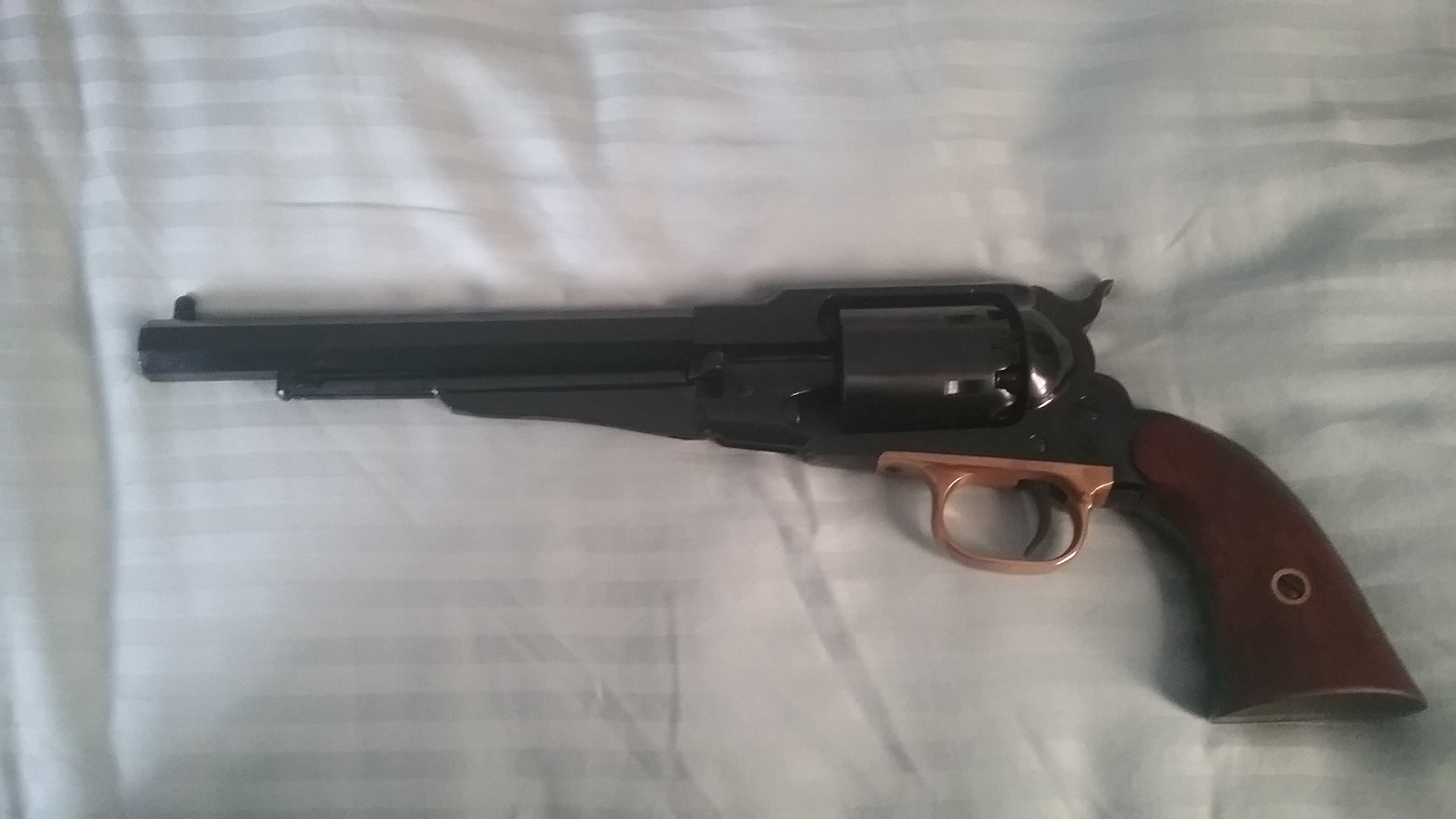 This is a reproduction made by Pietta.